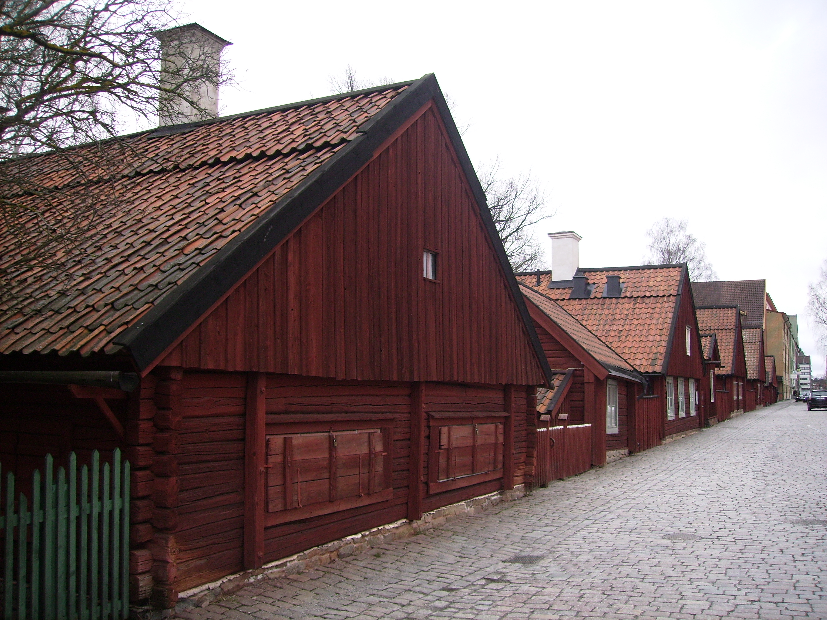 Picture of Rademachersmedjorna in Eskilstuna